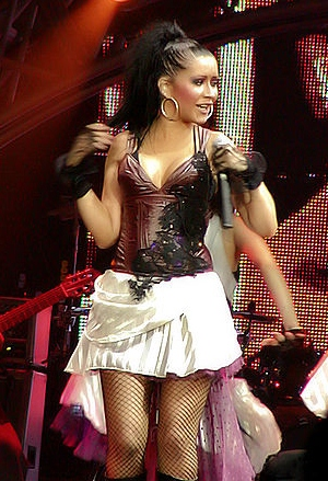 Christina Aguilera performed "Contigo en la Distancia/Falsas Esparanzas" medley on the Stripped Tour